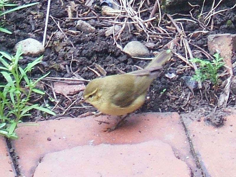 Phylloscopus collybita, Jesmond Dene, Newcastle upon Tyne, Northumberland, UK